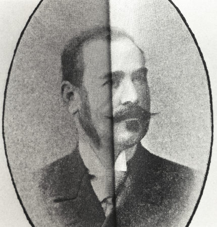 Michail Katsaras (1860-1939): Greek physician